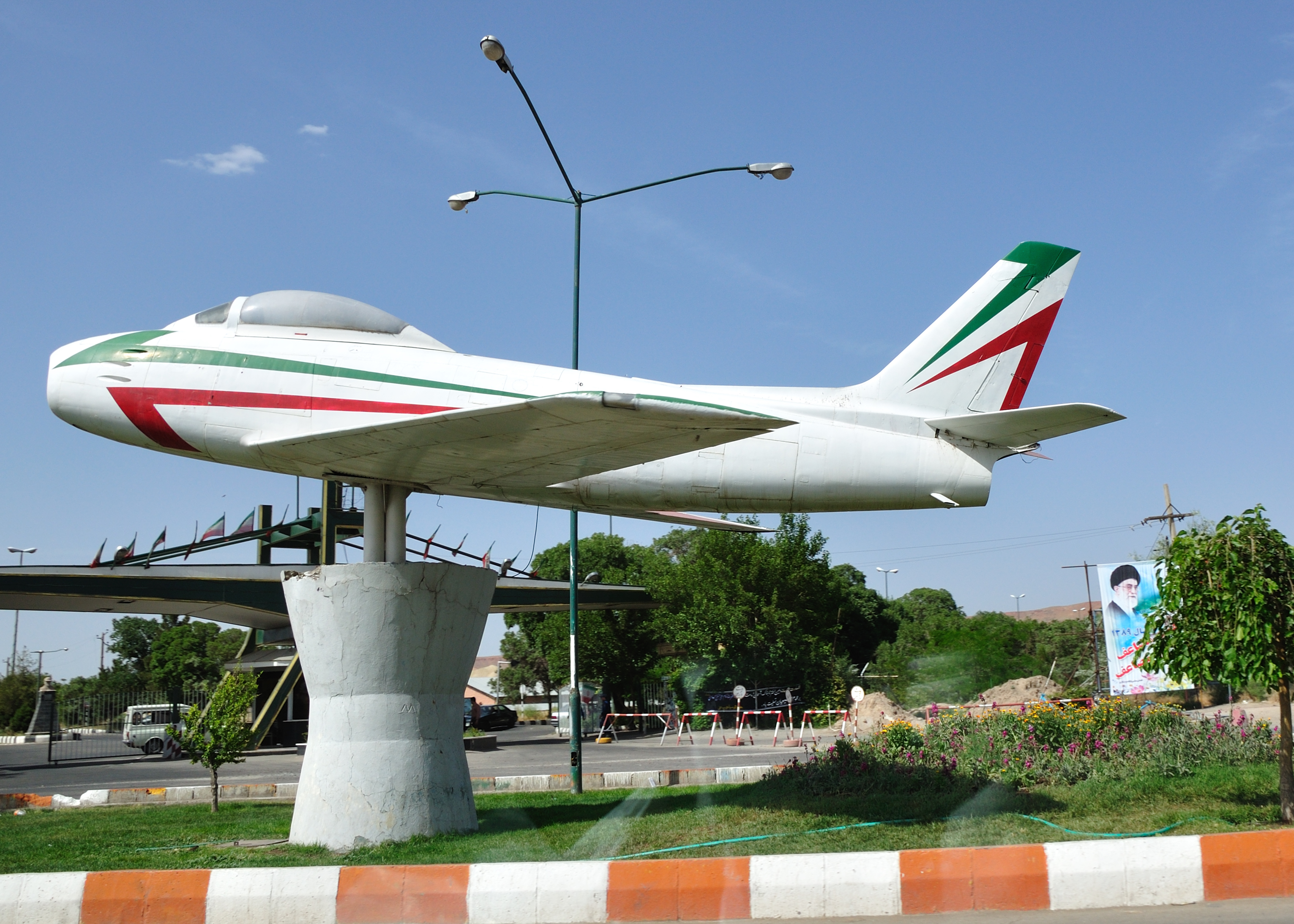 Iran, F-86 Sabre in front of the airforce base in Tabriz